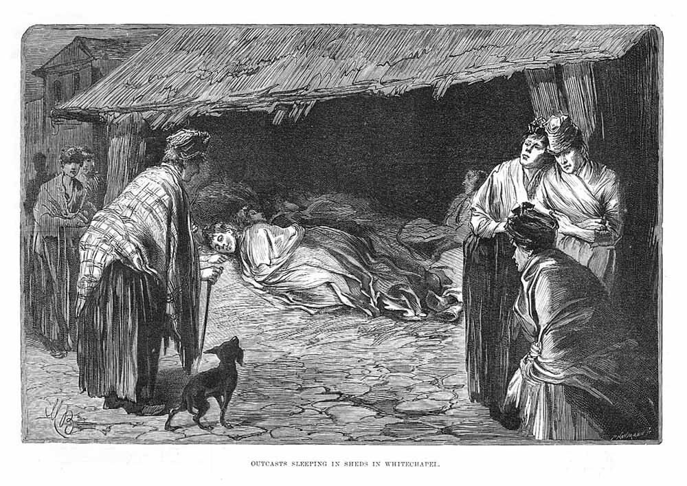 One of a series of images from the Illustrated London News for October 13, 1888 carrying the overall caption, "With the Vigilance Committee in the East End". This specific image is entitled "Outcast Sleeping In Sheds In Whitechapel".